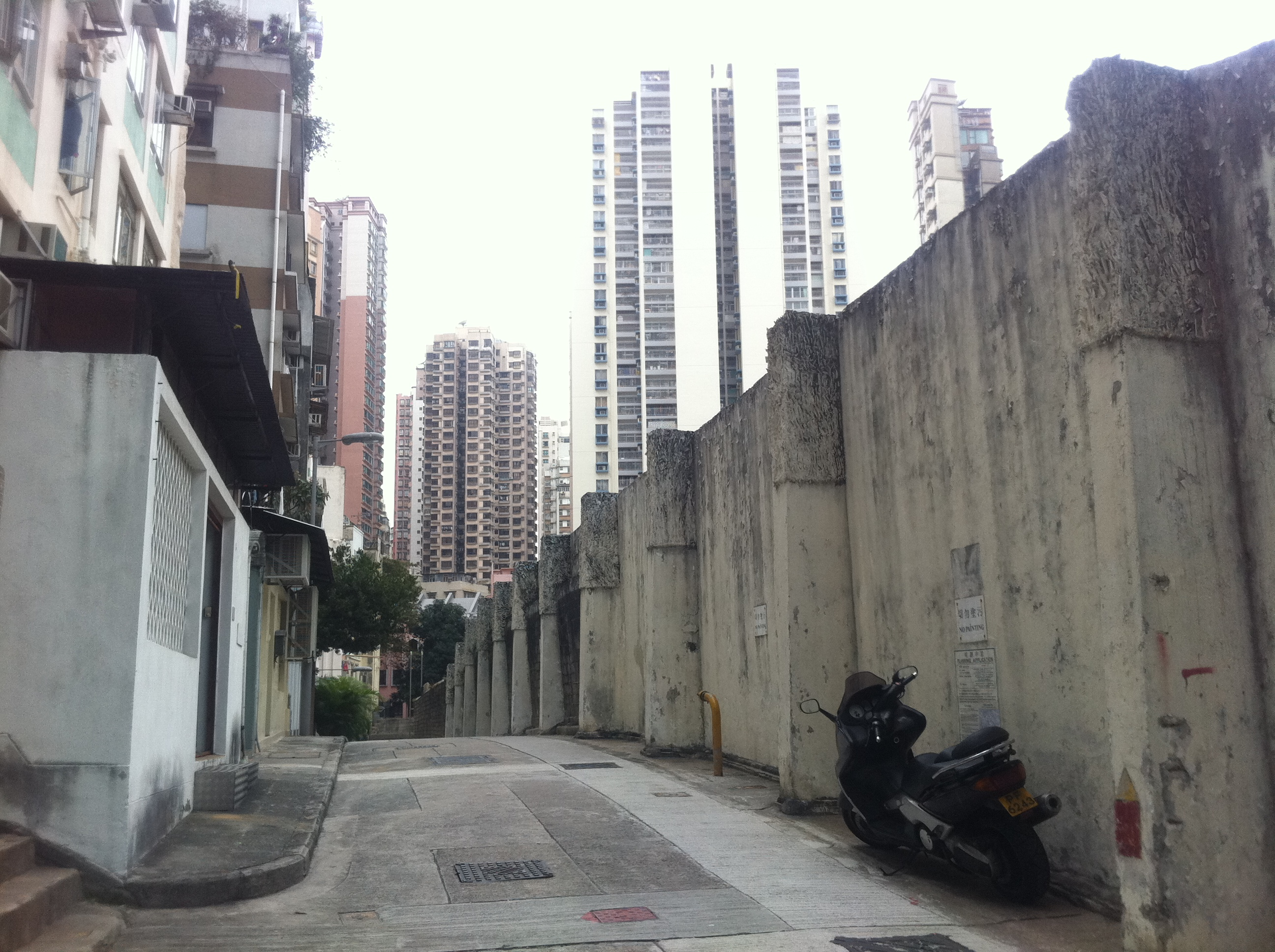 香港島 中環 贊善里, Chancery Lane, Central, Hong Kong